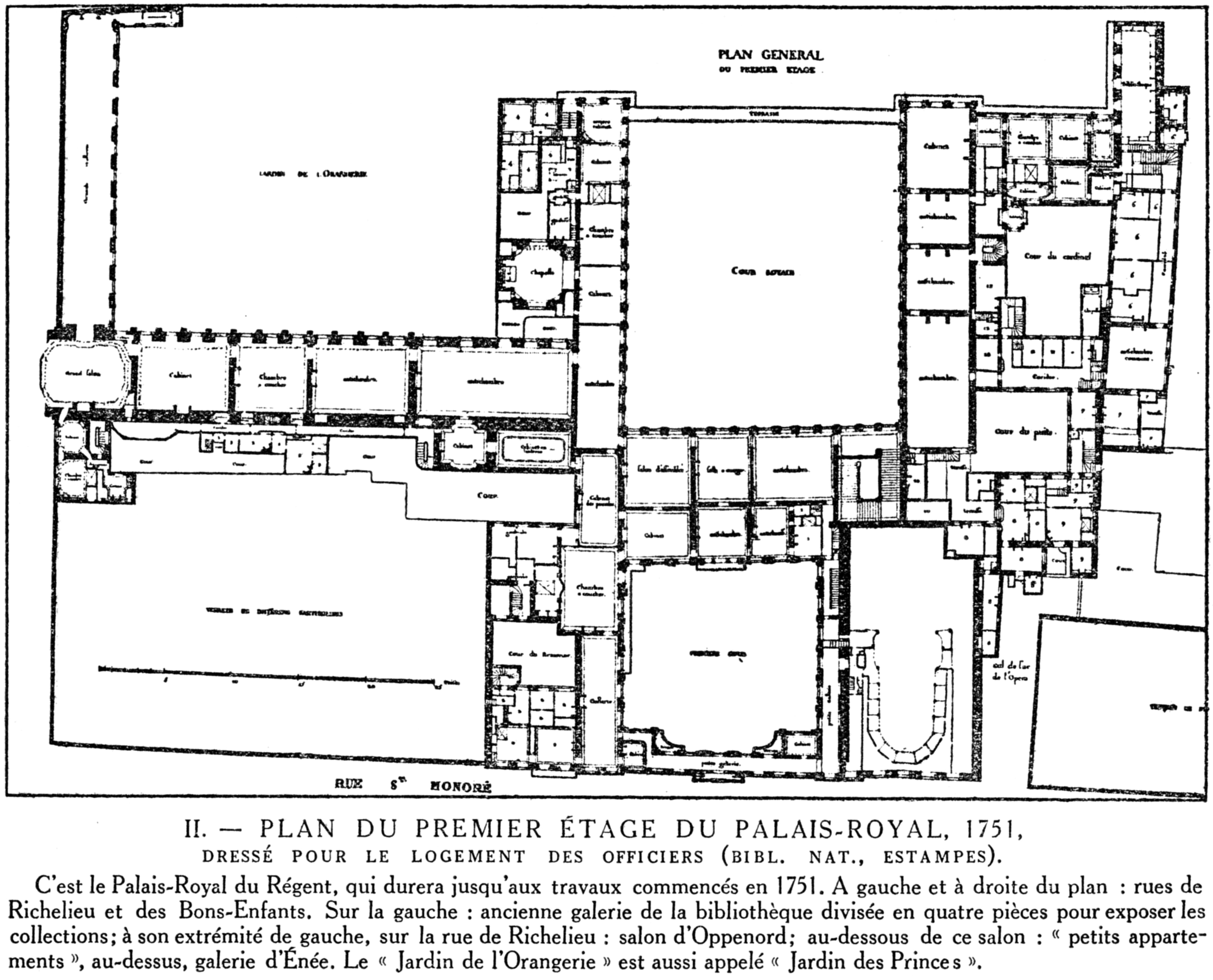 Plan of the first floor (piano nobile) of the Palais-Royal in 1751 before the reconstruction work which began that year; based on a plan in a manuscript at the Bibliothèque nationale de France which is entitled "Dressé pour le logement des officiers"